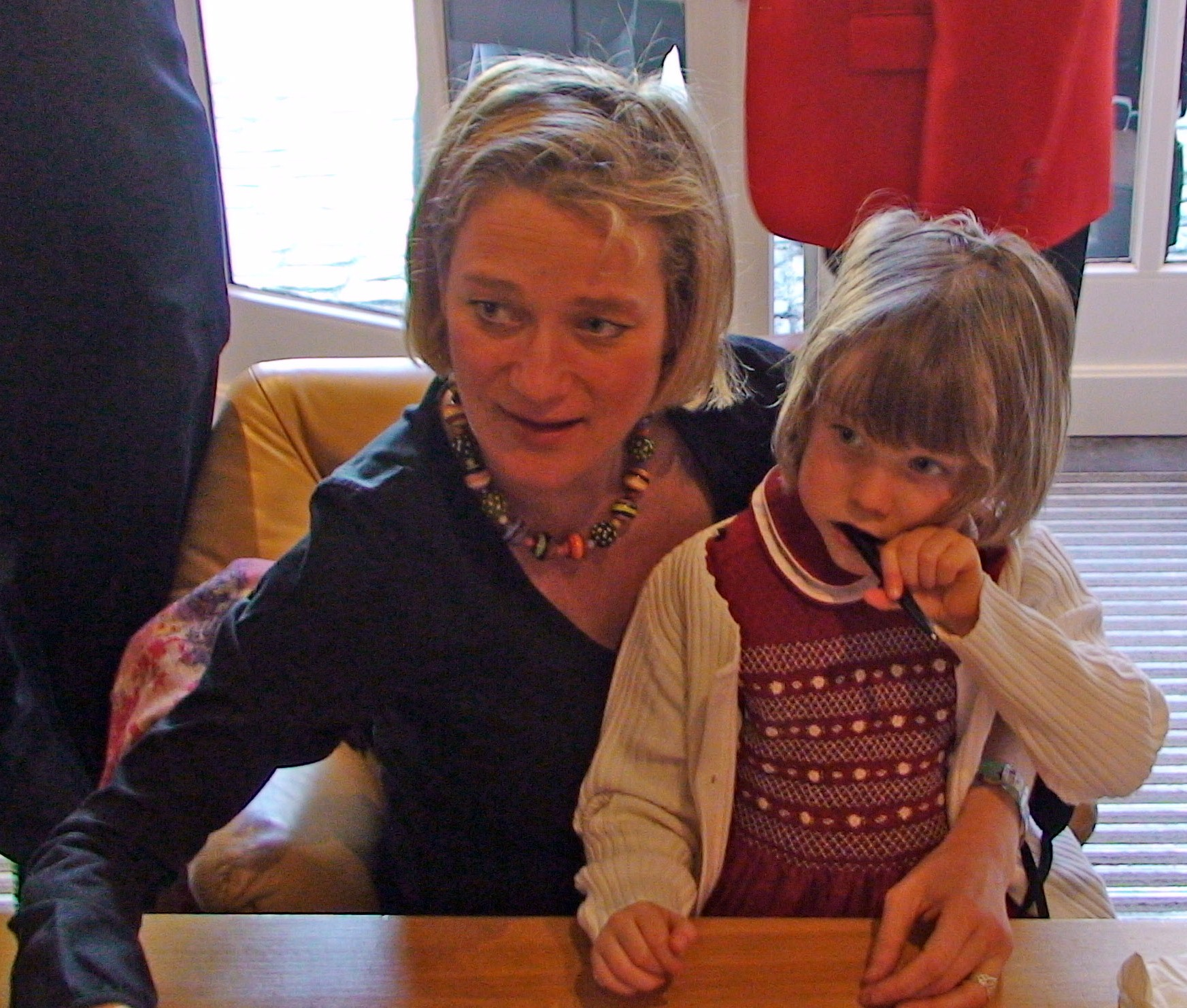 Delphine Boël, Belgian sculptor and putative daughter of King Albert II of Belgium, signing her book in East Flanders, Belgium.